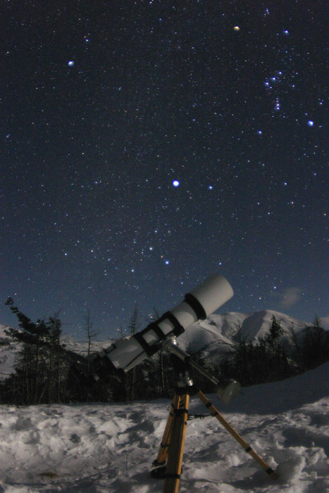 Engelhardt Observatory, Zelenchukskaya Station, MPC COD: 114